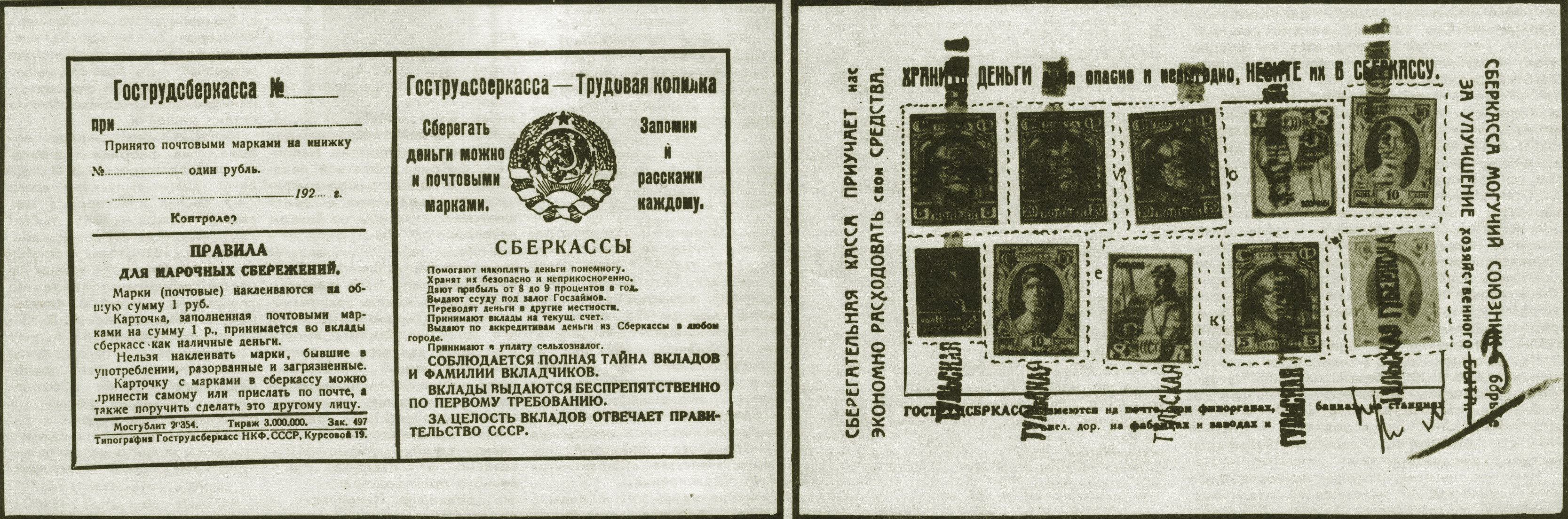 Sberkassa card for accumulating postage stamps of the Soviet Union, 1920s